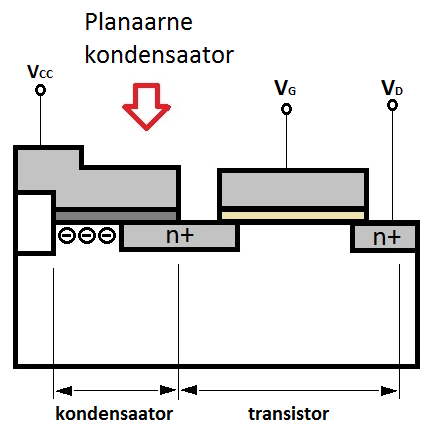 Planaarse DRAMi kondensaatori skeem